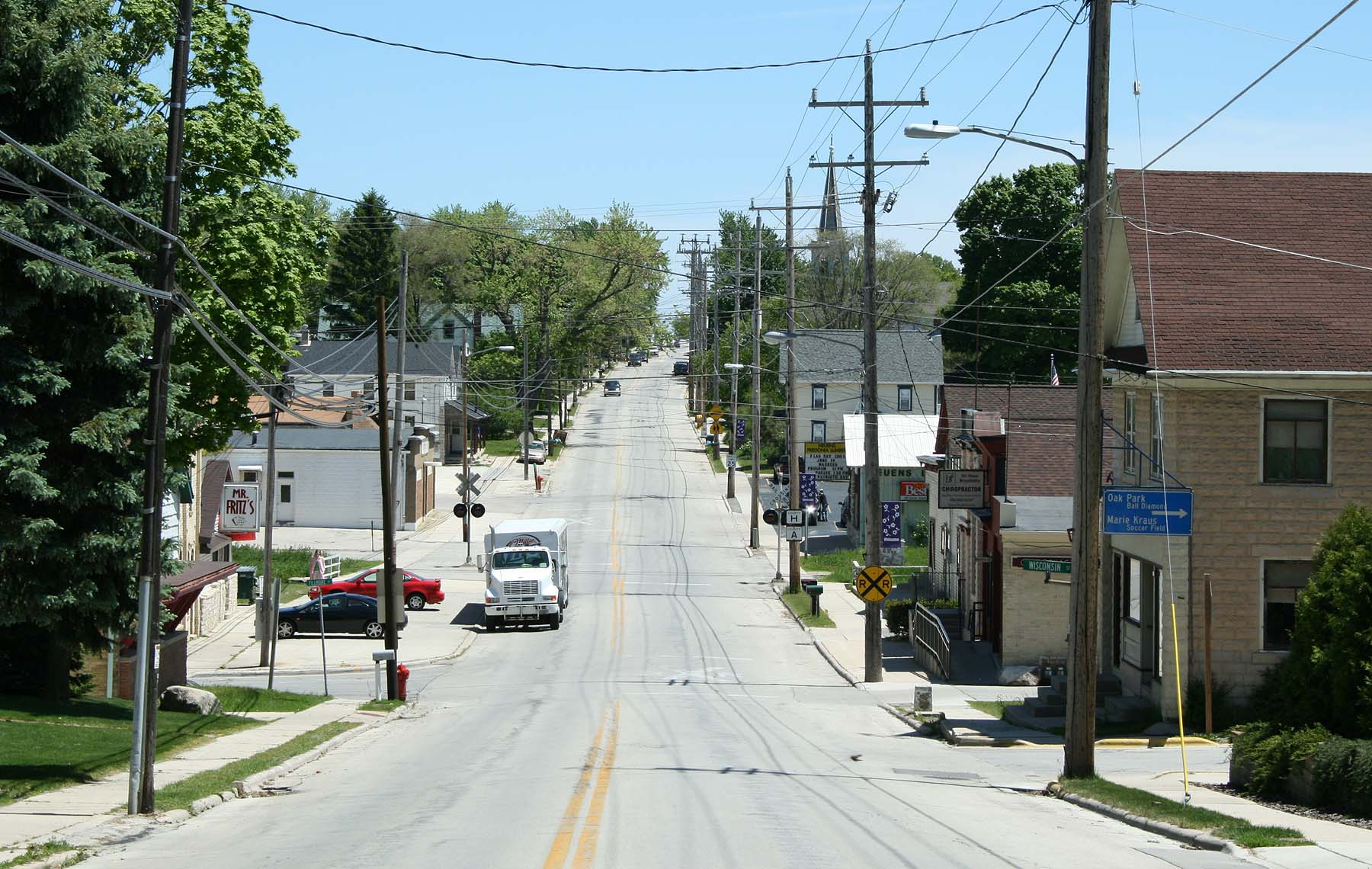 The village of Fredonia, Wisconsin. Looking east on Fredonia Ave./formerly Wisconsin Highway 84.